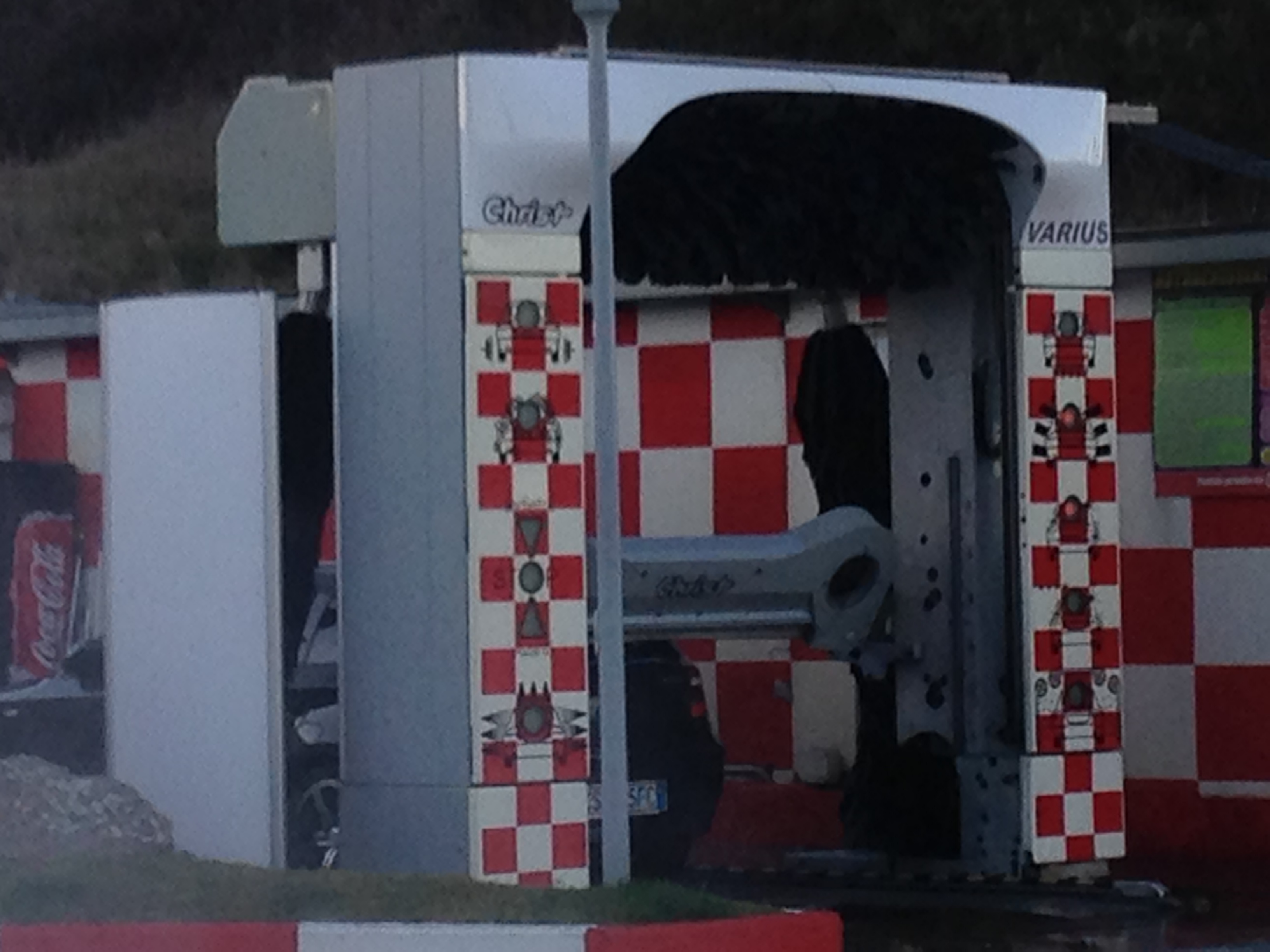 Andrea Costa Car wash in Pratosardo, Sardinia, Italy